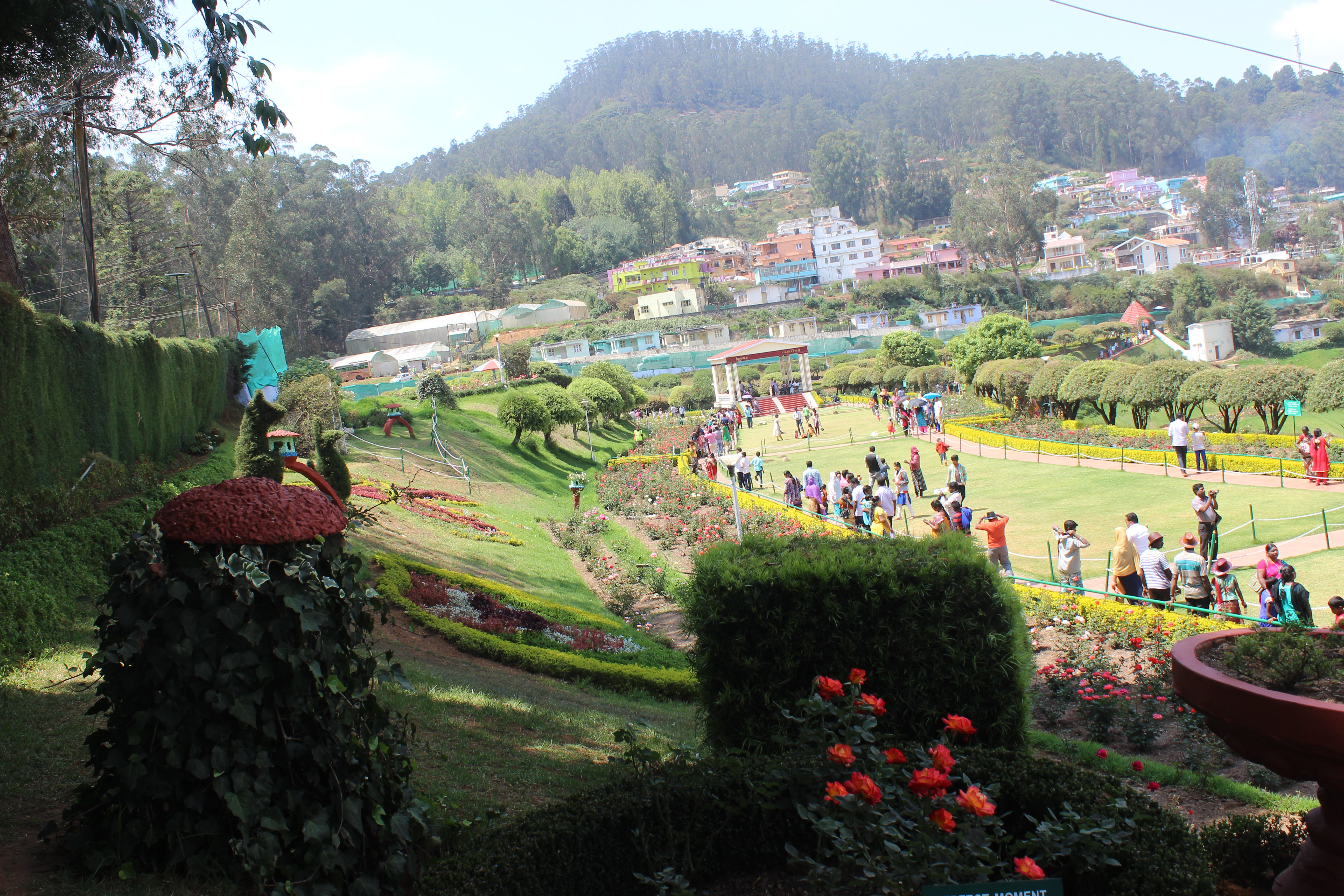 Rose Garden in Ooty, Tamil Nadu.